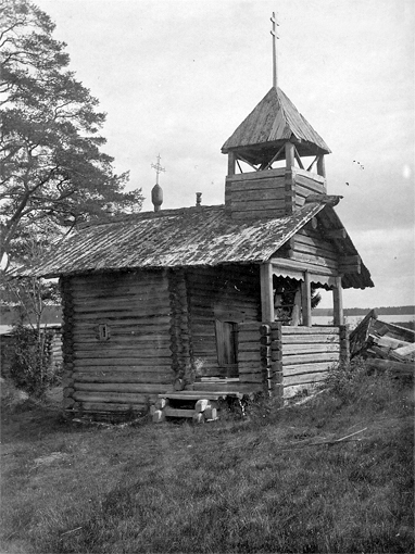 Tolvajärvi orthodox chapel before Winterwar.